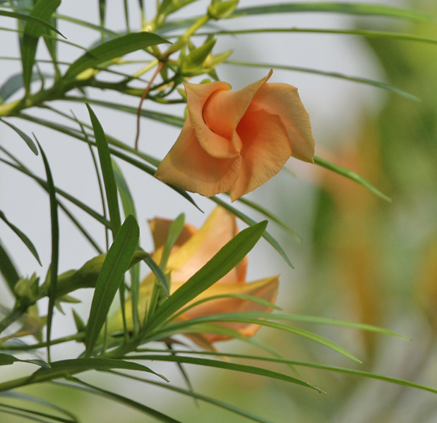 Yellow Oleander Thevetia peruviana in Kolkata, West Bengal, India.